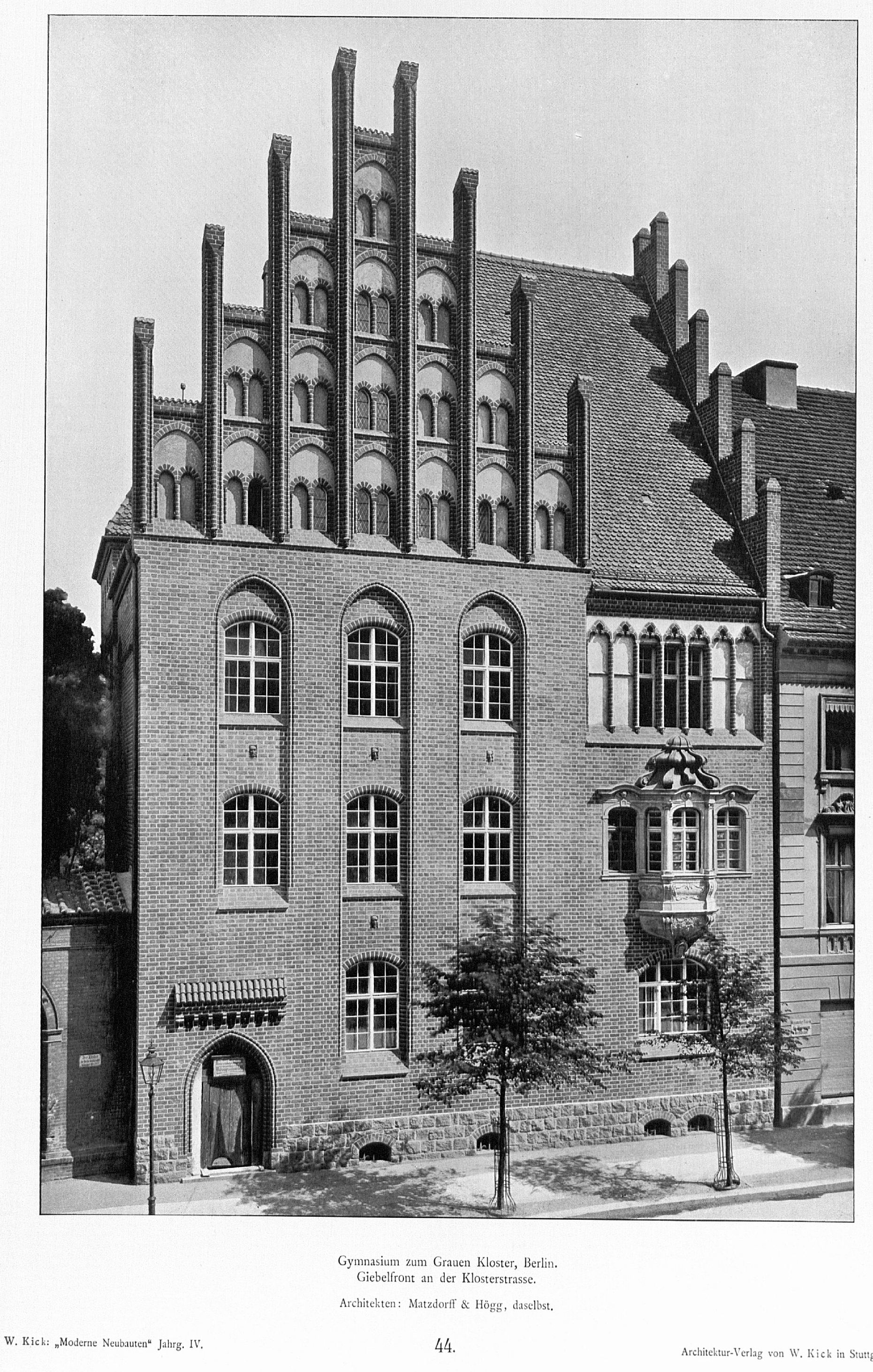 Gymnasium_zum_Grauen_Kloster_in_Berlin_Giebelfront_an_der_Klosterstrasse.jpg